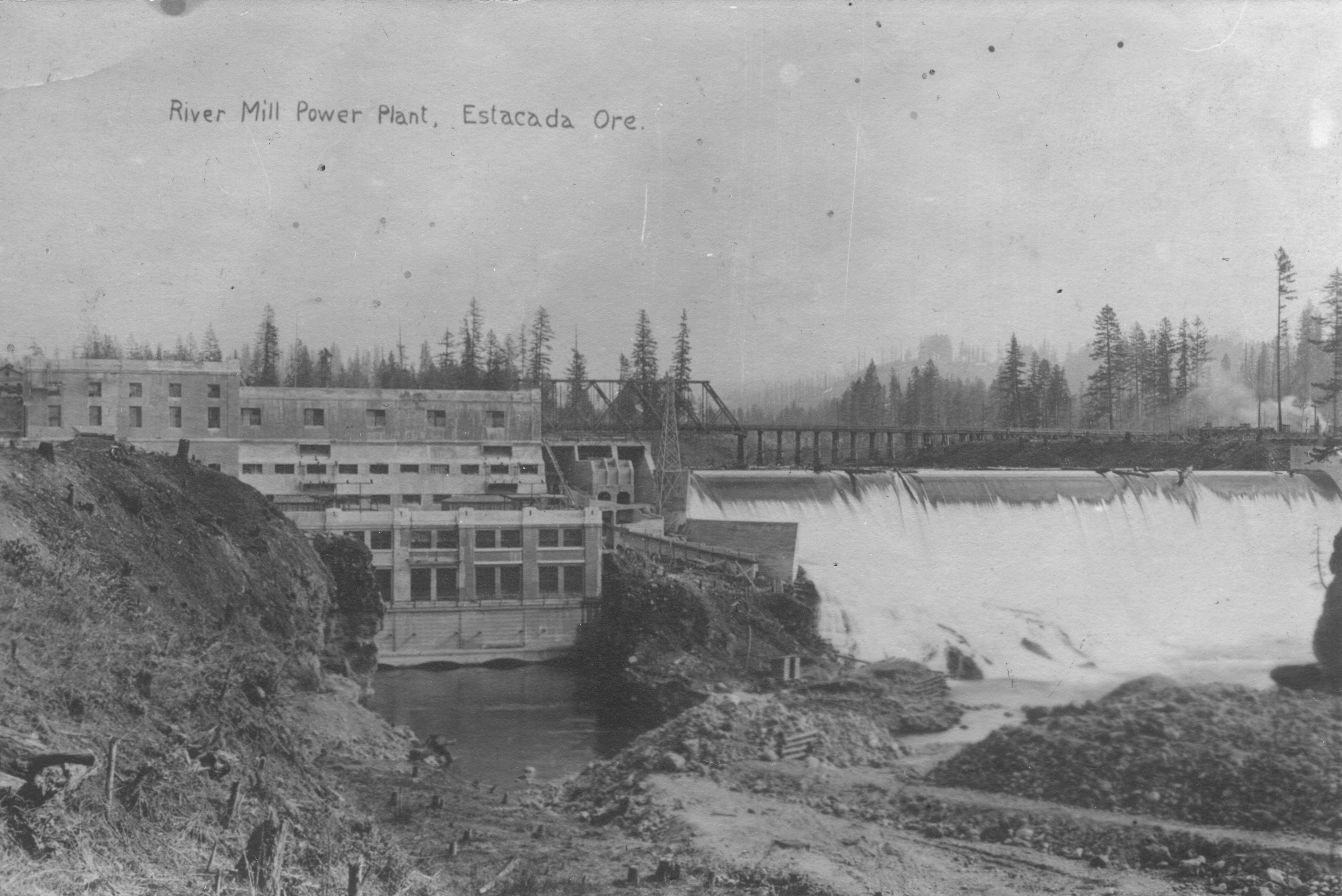 Original Collection: Gerald W. Williams Collection Item Number: WilliamsG:WV Estacada dam You can find this image by searching for the item number by clicking Want more? You can find more We're happy for you to share this digital image within the spirit of The Commons; however, certain restrictions on high quality reproductions of the original physical version may apply. To read more about what “no known restrictions” means, please visit the or contact staff at the OSU Special Collections & Archives Research Center for details.